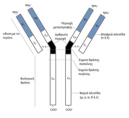 H δομή της ανοσοσφαιρίνης IgG. Οι ελαφριές και οι βαριές της αλυσίδες.